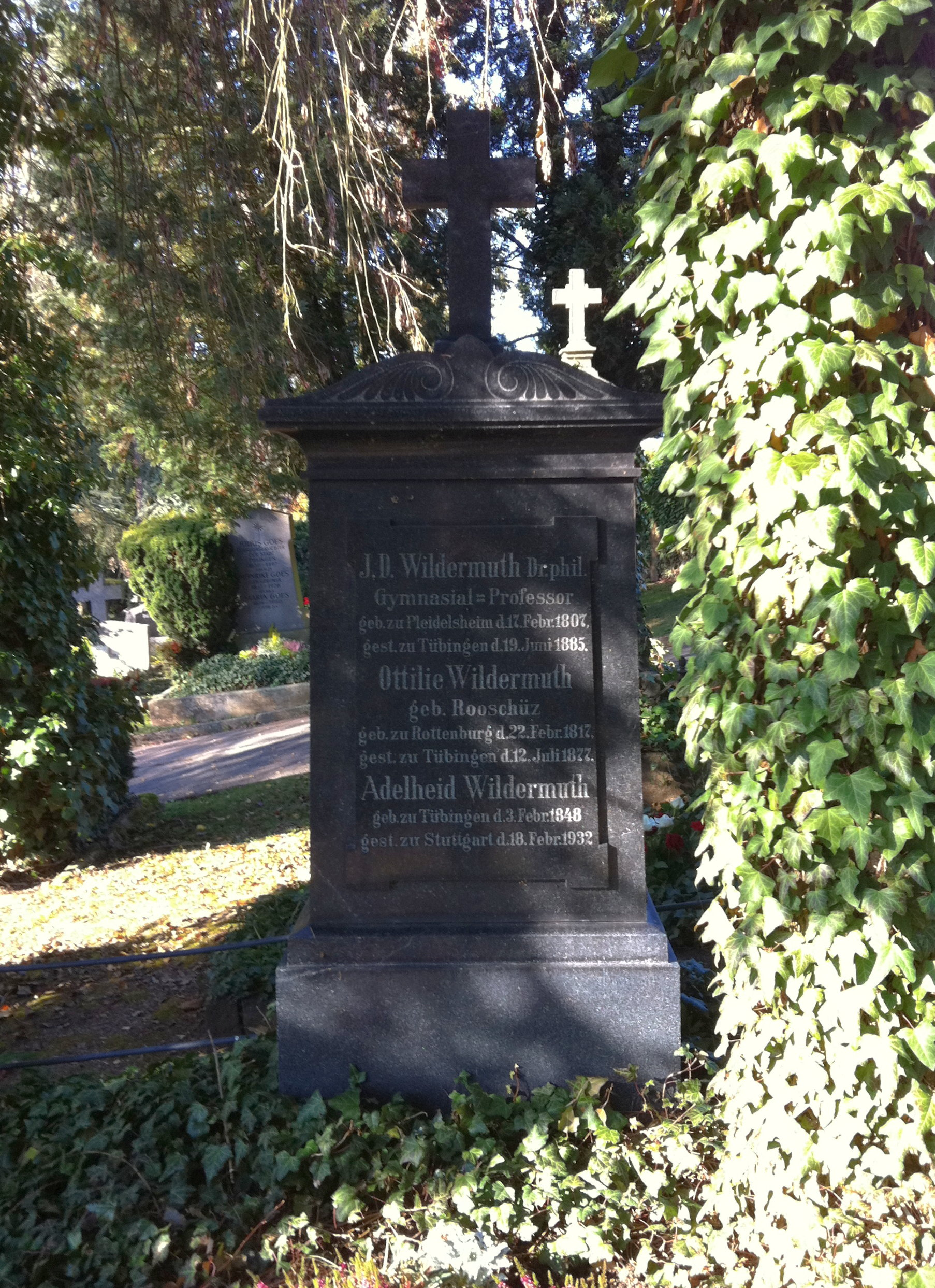 Gravestone of Ottilie Wildermuth in the town cemetry of Tübingen (Germany)